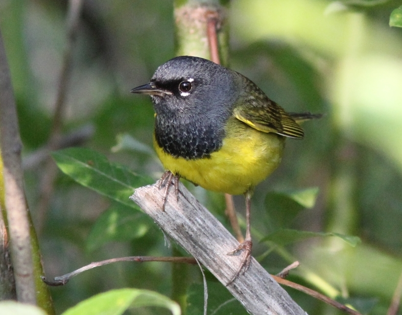 MacGillivray's Warbler Geothlypis tolmiei, Hungry Horse, Montana.